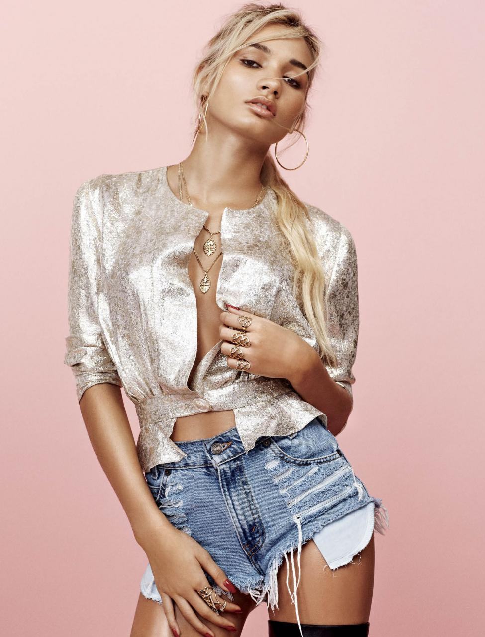 Pia Mia Perez